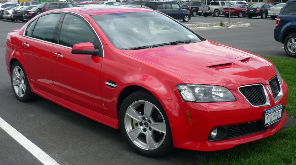 2008 Pontiac G8 GT sedan, photographed in the United States.